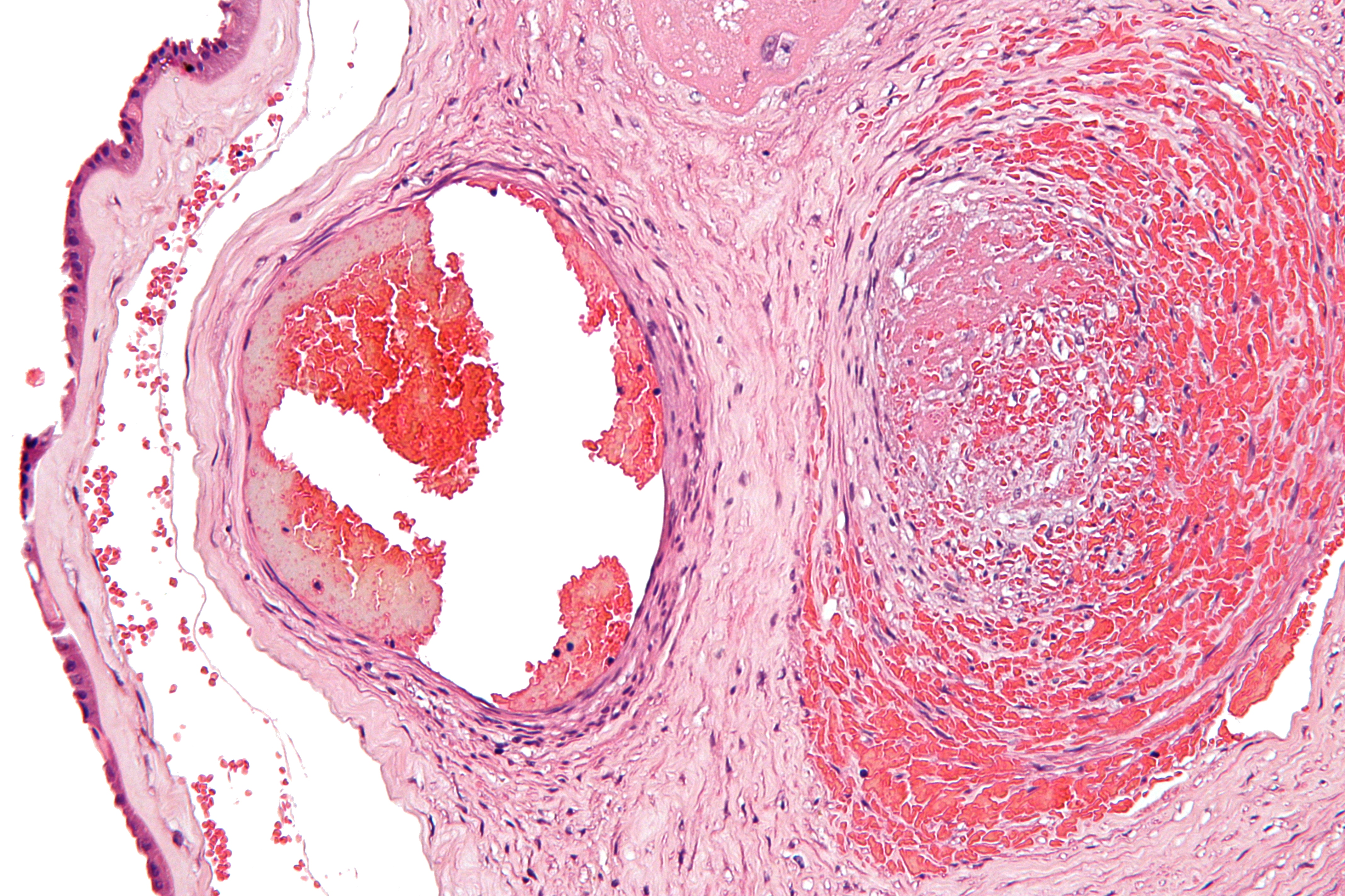 High magnification micrograph of fetal thrombotic vasculopathy. H&E stain. Histopathologically, it is characterized by:[1] Clustered fibrotic chorionic villi without blood vessels. Thrombi in fetal vessels. Clinically, it is associated with cerebral palsy, and stillbirth. Related images Low mag. Intermed. mag. High mag. Very high mag. References ↑ (Jul 1999). "Fetal thrombotic vasculopathy in the placenta: cerebral thrombi and infarcts, coagulopathies, and cerebral palsy.". Hum Pathol 30 (7): 759-69.